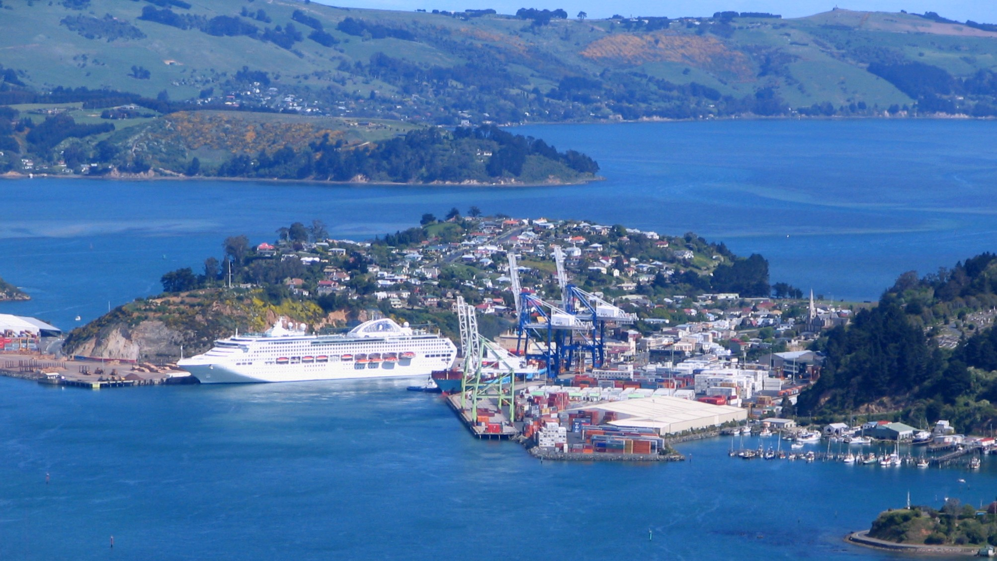 Dawn Princess cruise ship, berthed at Port Chalmers, Dunedin, New Zealand. Looking southwest down Otago Harbour from Heyward Point Road, Grassy Point, Macandrew Bay, Otago Peninsula visible in the top